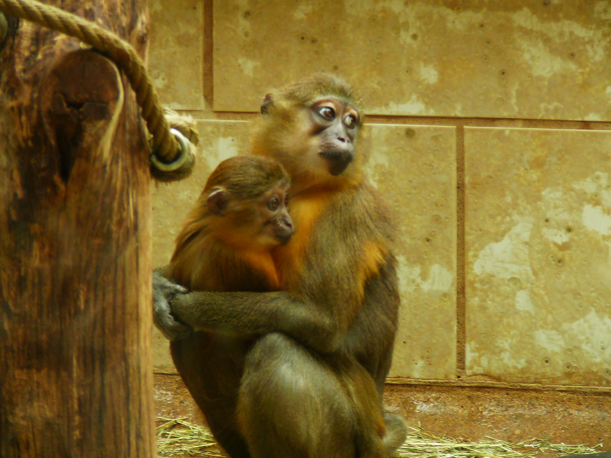 Cercocebus chrysogaster